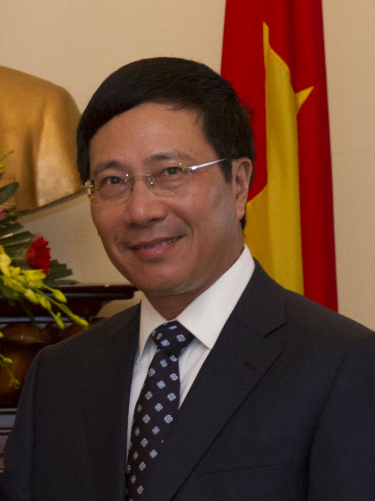 Secretary of Defense Leon E. Panetta (not shown) poses for a photograph with Vietnamese Minister of Foreign Affairs, Pham Binh Minh, after a meeting in Hanoi, Vietnam, June 4, 2012. DoD photo by Erin A. Kirk-Cuomo (Released)